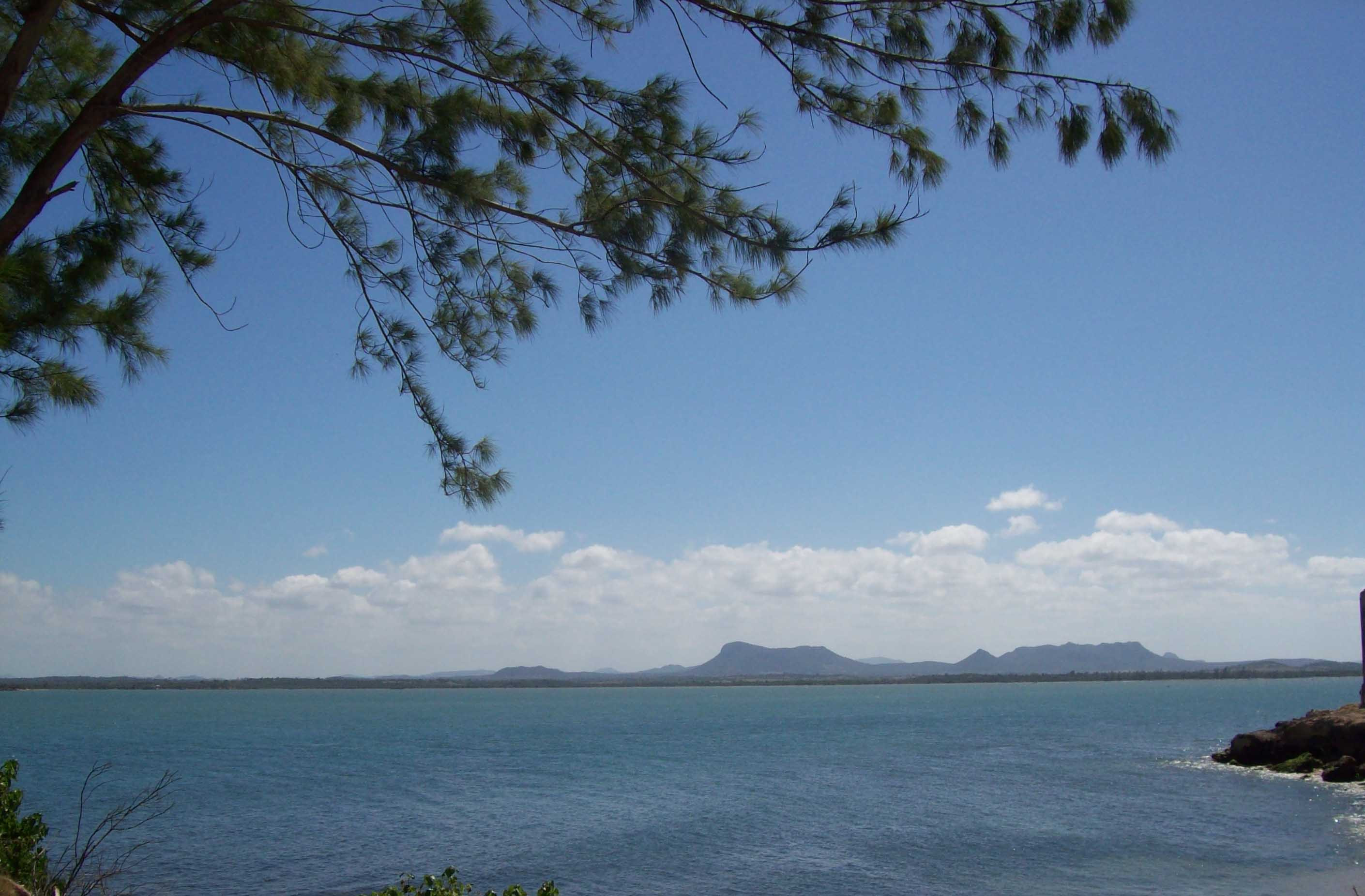 Bahia de Gibara